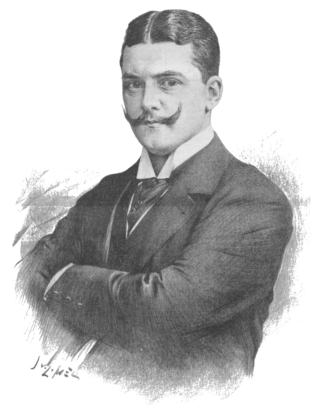 Emil Meßthaler (1869-1927), German actor